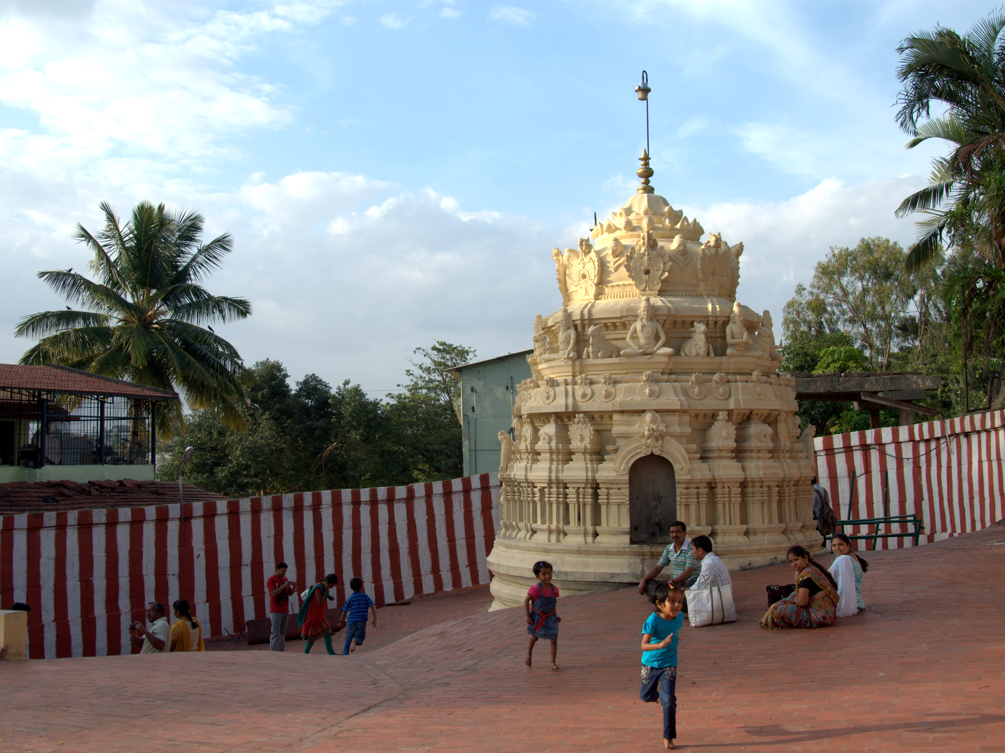 Gangadhareswara Temple